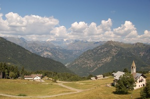 Alpe di Mera (near Scopello -province of Vercelli, Italy-)